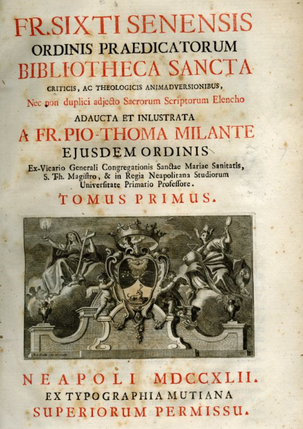 Title page of Sixtus of Siena's book "Bibliotheca Sancta" ("The Sacred Library") (1742 edition).